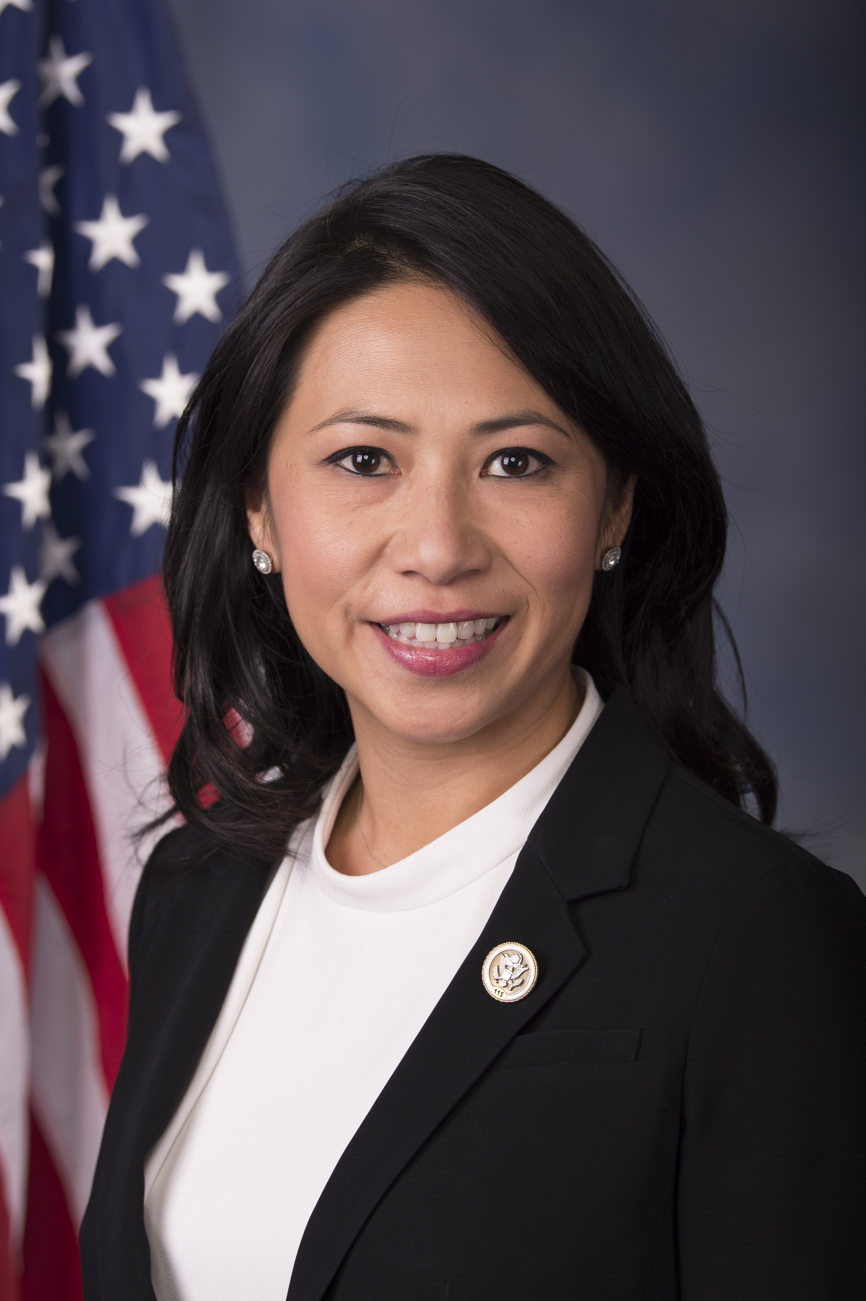 Stephanie Murphy official photo